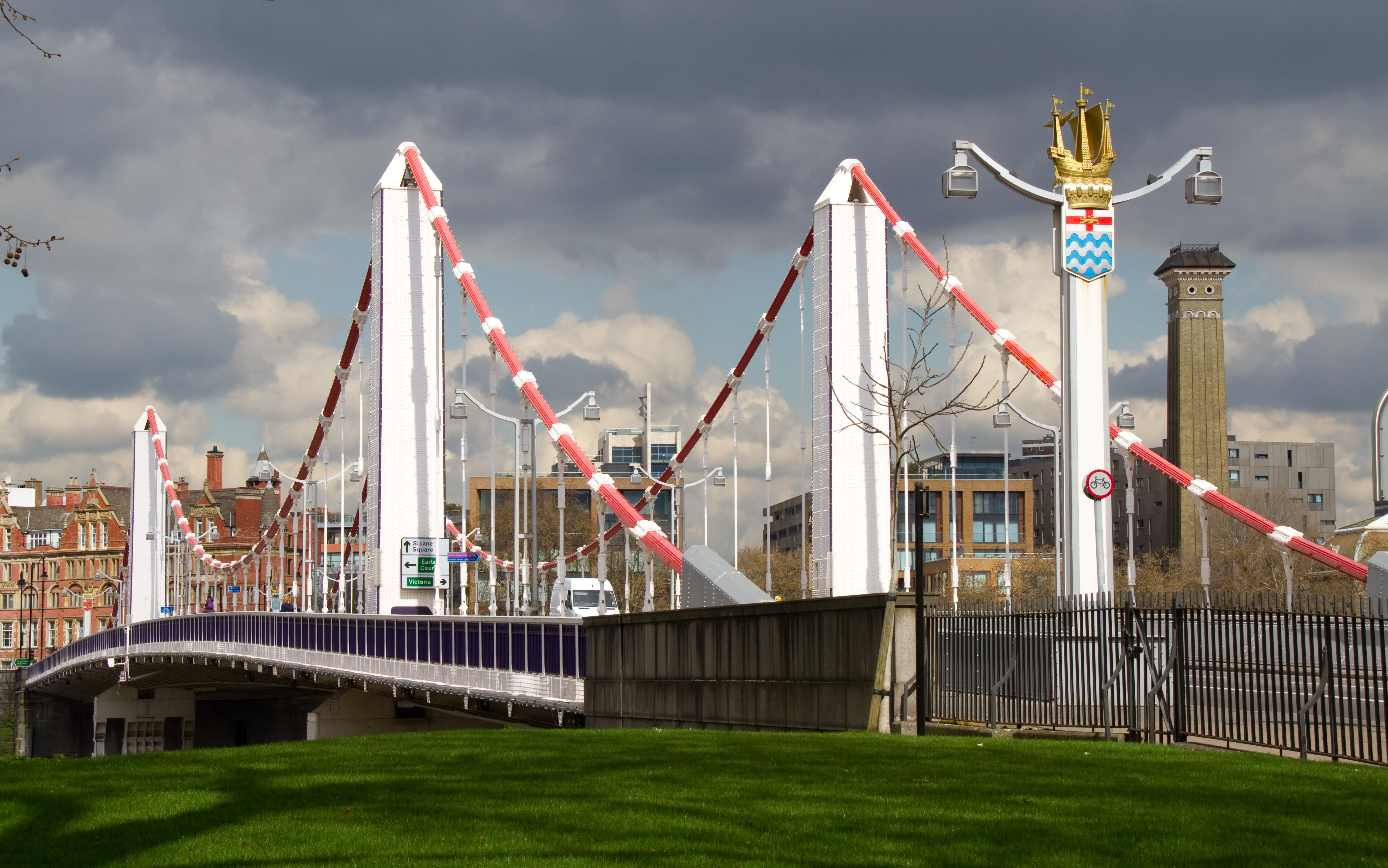 Chelsea Bridge 3